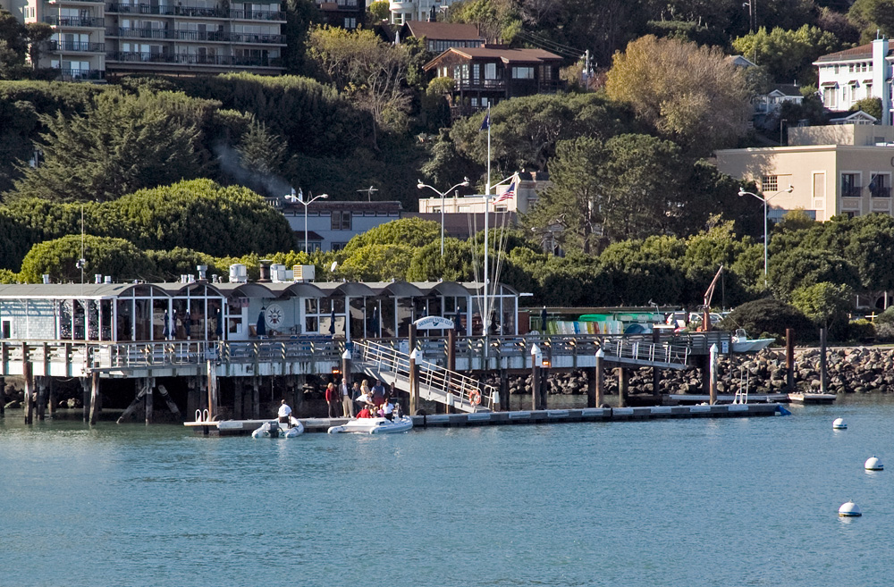 Photo of Sausalito Yacht Club in Sausalito, California USA